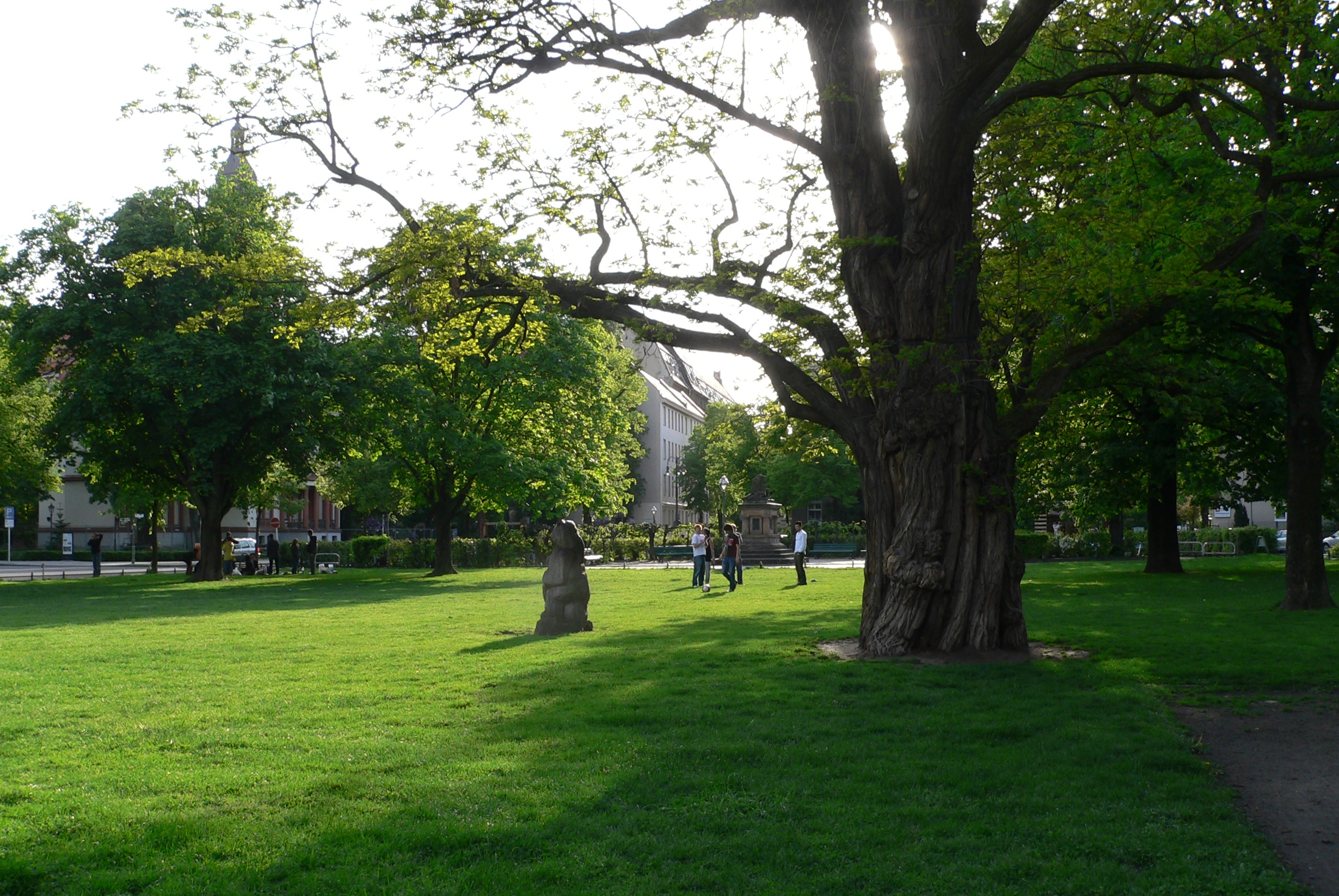 Alt-Lietzow overwiew